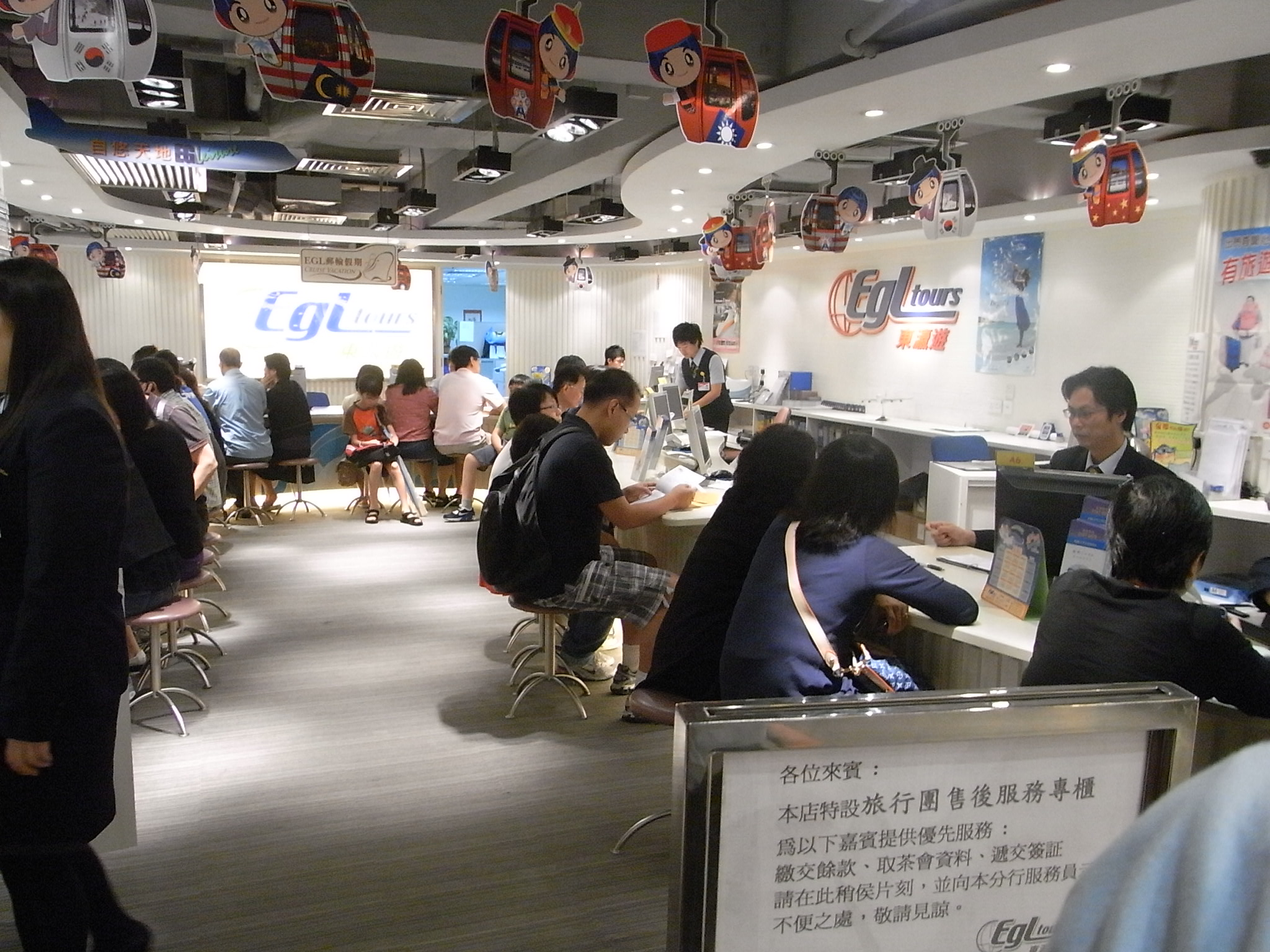 銅鑼灣恆隆中心 東瀛遊